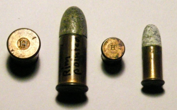 .44 and .32 rimfire rounds